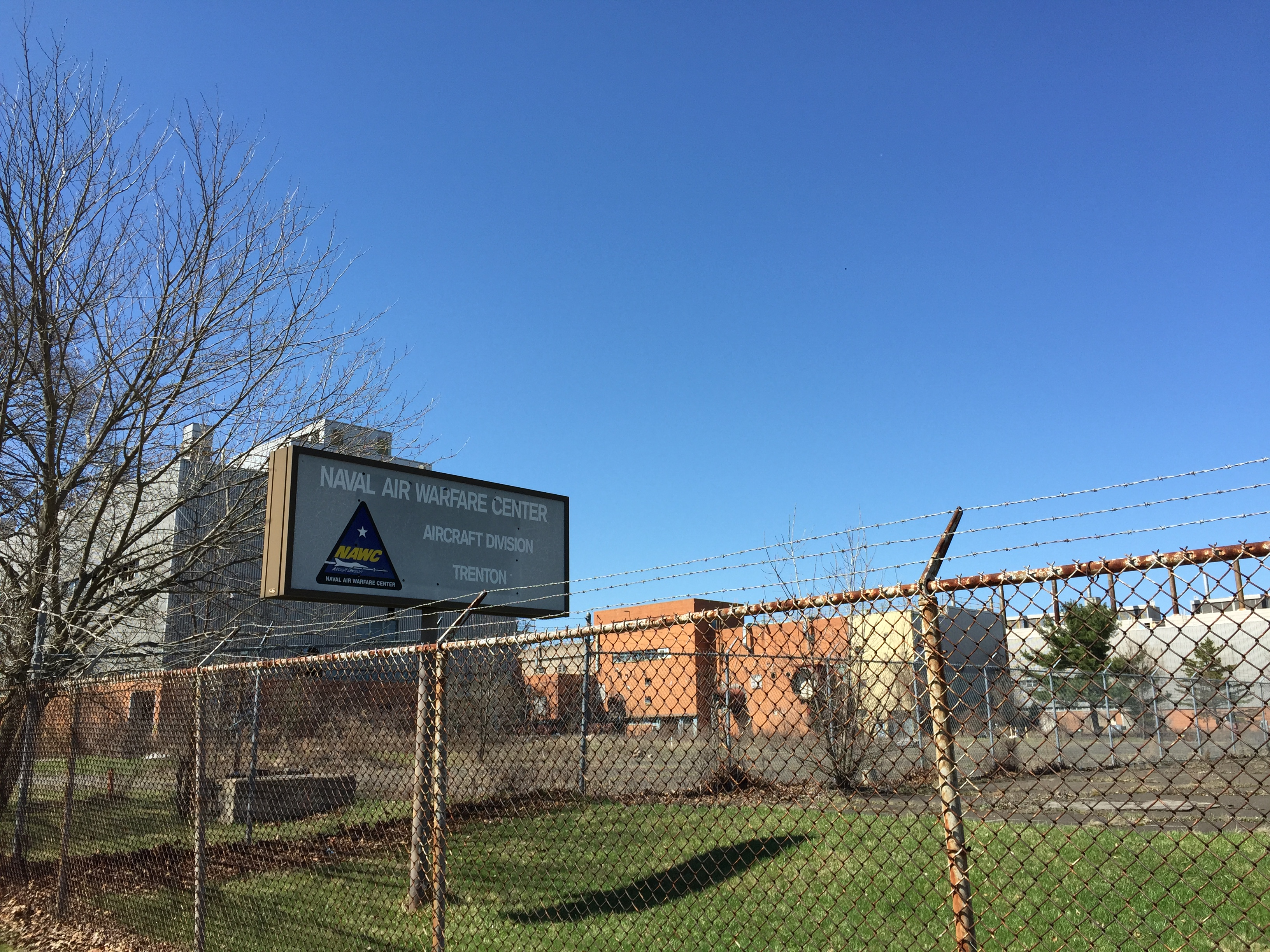 Naval Air Warfare Center Trenton viewed from Parkway Avenue in Ewing, New Jersey